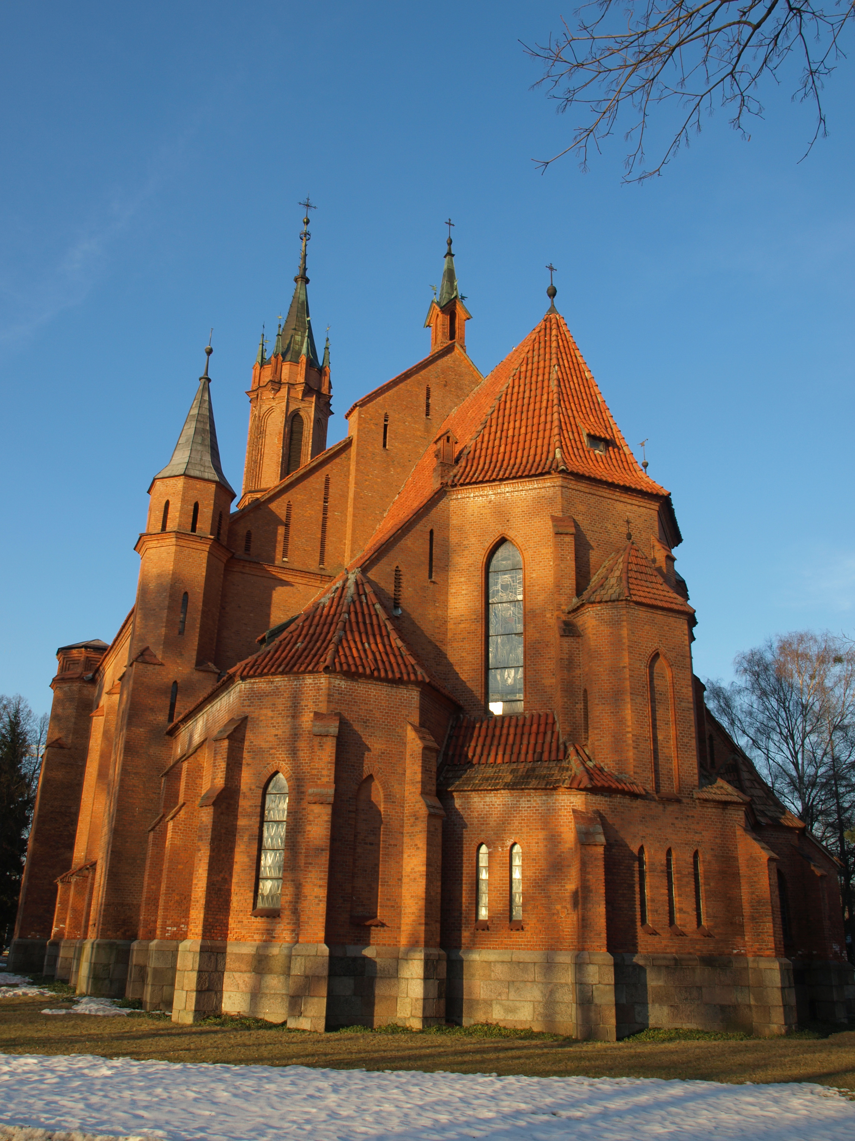 Saint Mary's Scapular church in Druskininkai, Lithuania